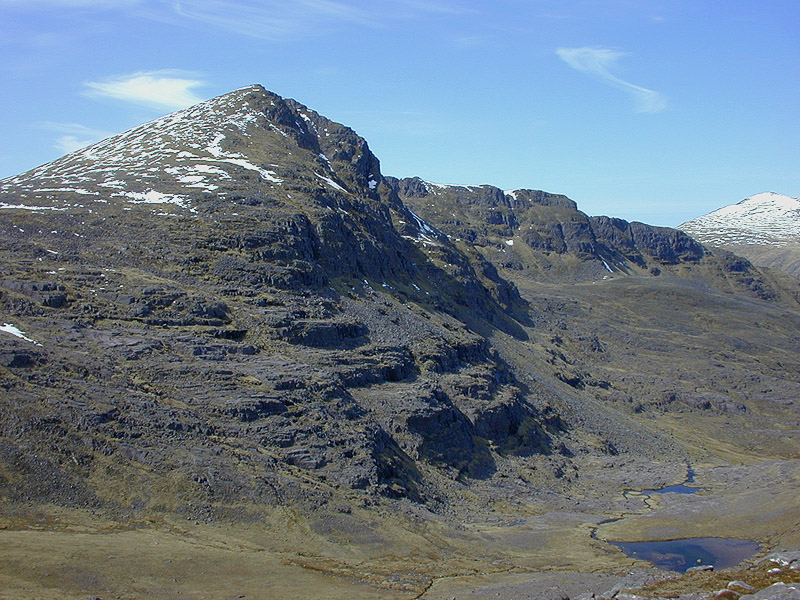 Beinn Tarsuinn Seen from the col between Meall Garbh and Mullach Coire Mhic Fhearchair.